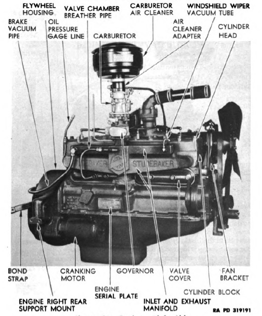 Hercules JXD engine right side